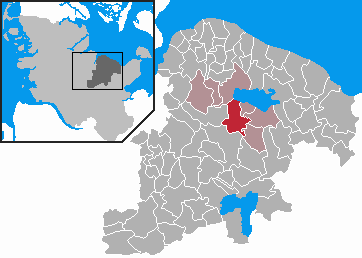 This map shows the area of the Gemeinde (municipality) Martensrade in the Kreis (district) Plön, Schleswig-Holstein, Germany.